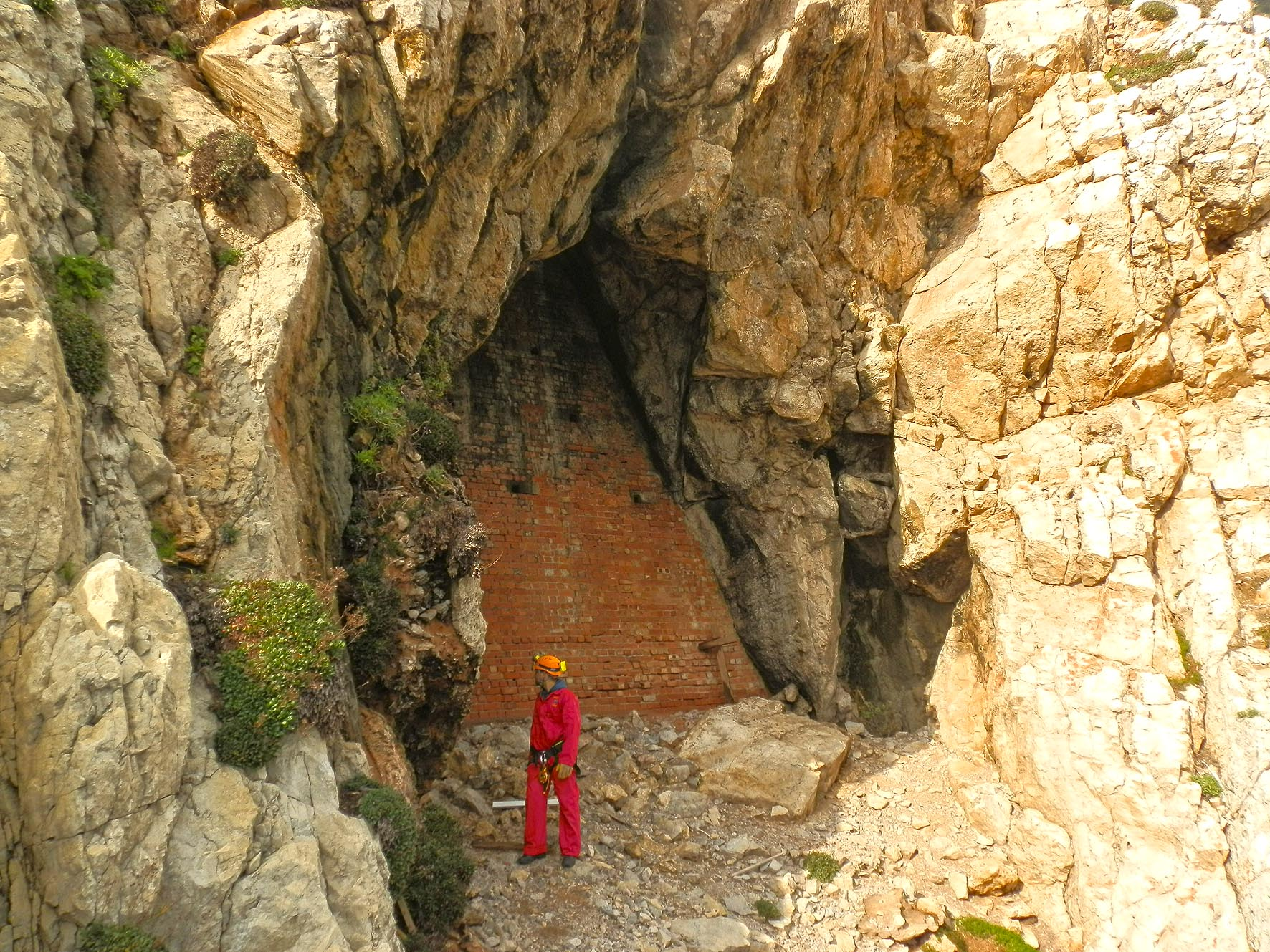 Coptic Cave in Gibraltar - main entrance